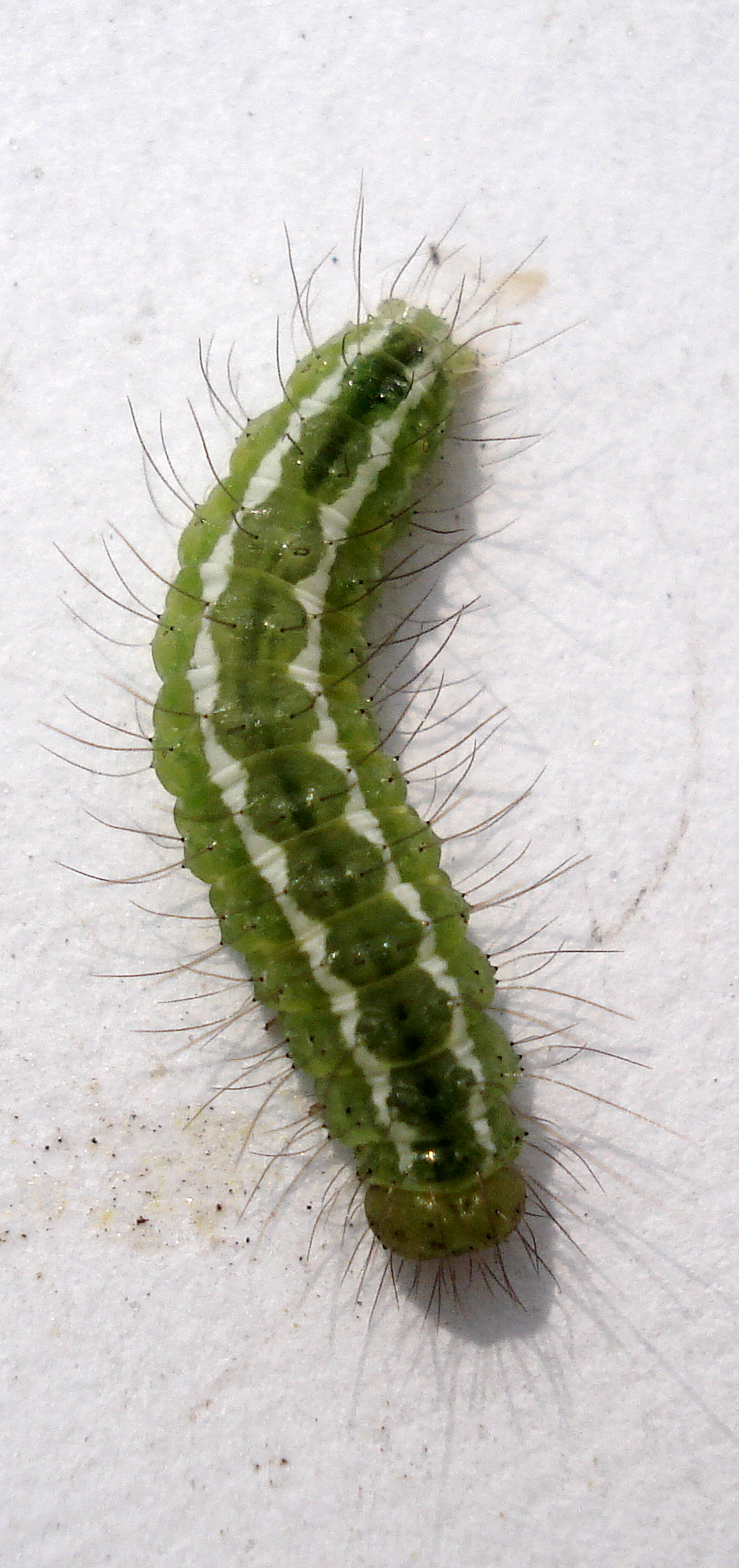 DSC05794 Larvae of the Straw Dot moth, Rivula sericealis